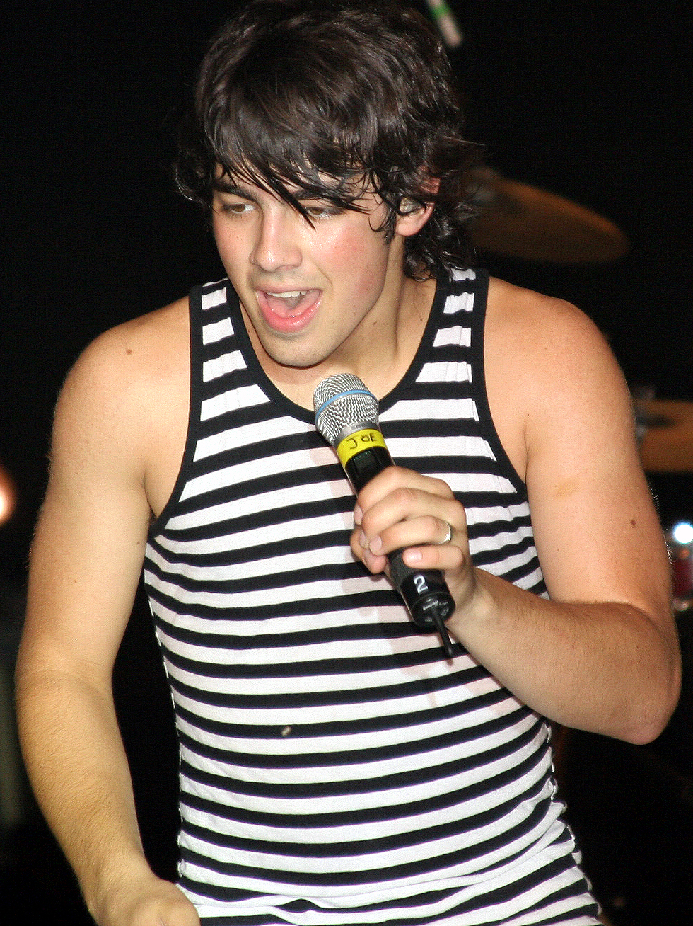 Joe Jonas of the Jonas Brothers performing in Bessemer, Alabama on July 13, 2007.